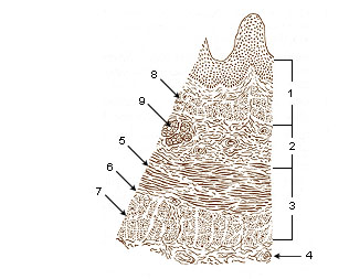 Layers of Esophageal Wall 1. Mucosa 2. Submucosa 3. Muscularis 4. Adventitia 5. Instraited muscle 6. Striated and smooth 7. Smooth muscle 8. Lamina muscularis mucosae 9. Esophageal glands